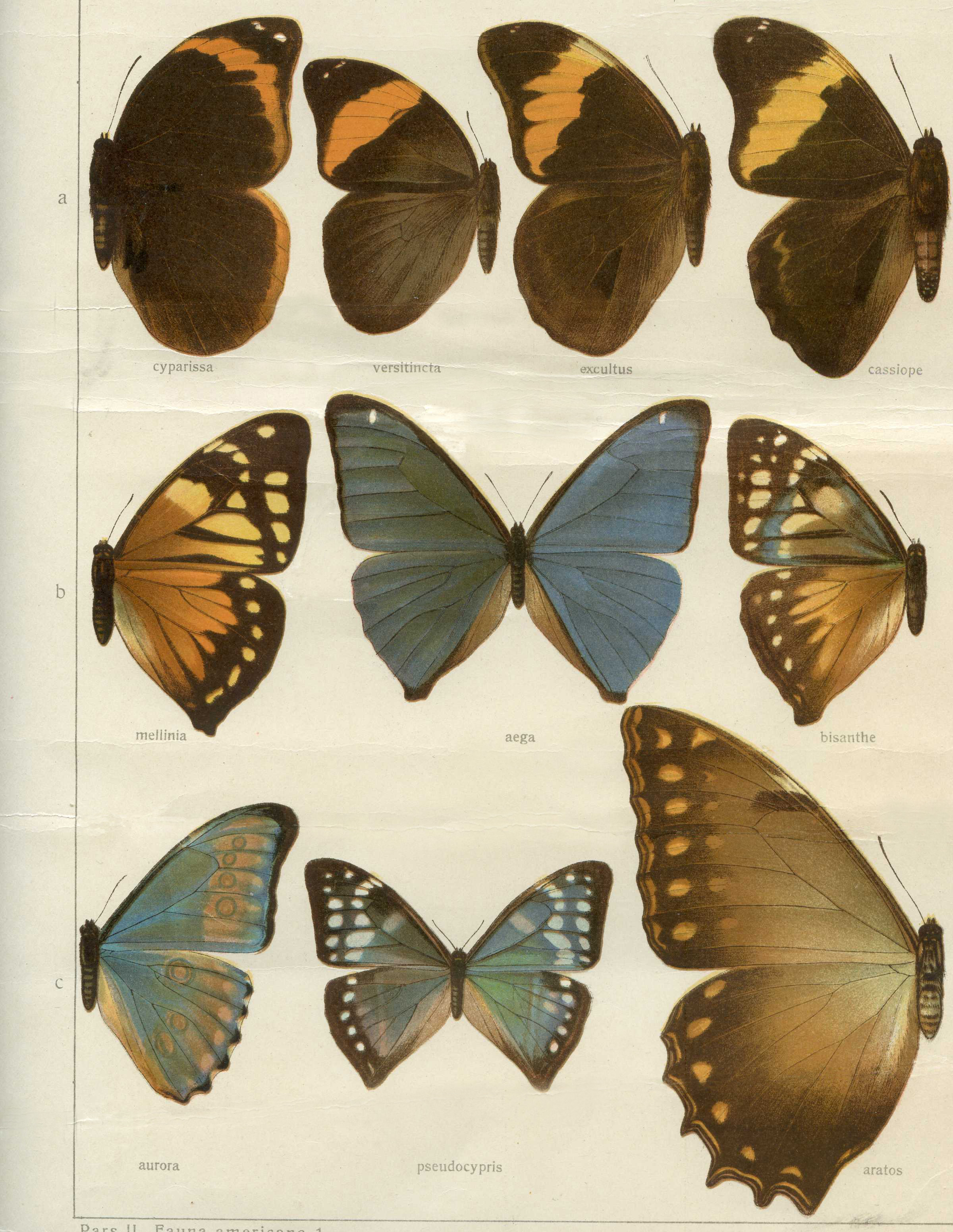 Plate from Adalbert Seitz ed. The Macrolepidoptera of the world; a systematic description of the hitherto known Macrolepidoptera Volume V: The American Rhopalocera. Stuttgart 1924 - Page 6- (MORPHO) German Grossschmetterlinge der erde French Les Macrolépidoptères du Globe. Révision systématique des Macrolépidoptères connus jusqu' à ce jour. Stuttgart, Kernen, 1911-1945. The French edition was published by Eugène Le Moult (1882-1967) and also distributed by him. cyparissa synonym for Catoblepia xanthicles (Godman & Salvin, [1881]) versitincta Catoblepia versitincta (Stichel, 1901) excultus Stichel, 1902 subspecies of Selenophanes josephus (Godman & Salvin 1881) cassiope Selenophanes cassiope (Cramer, 1775) mellinia Morpho aega melinia Fruhstorfer, 1907 forma of Morpho aega (Hübner, [1822]) aega Morpho aega (Hübner, [1822]) bisanthe Morpho aega bisanthe Fruhstorfer, 1907 forma of Morpho aega (Hübner, [1822]) aurora Morpho aurora Westwood, 1851 pseudocypris Fruhstorfer, 1907 forma of Morpho aega aega(Hübner, [1822]) aratos Morpho perseus aratos Fruhstorfer, 1905 synonym for Morpho theseus Deyrolle, 1860 subspecies justitiae Salvin & Godman, 1868